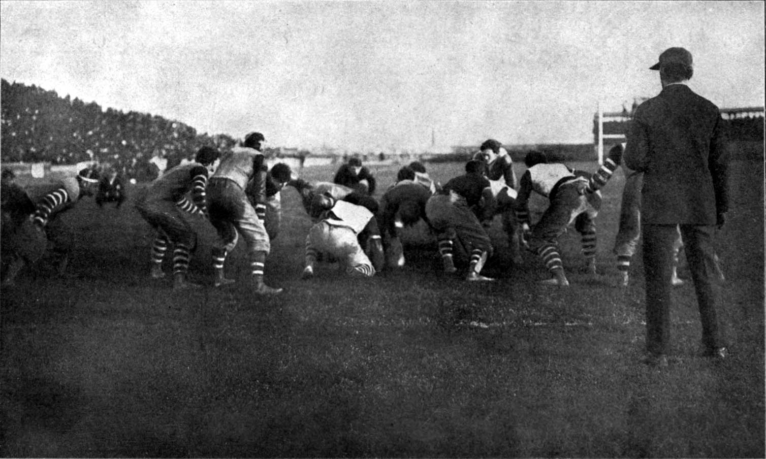 Lafayette on defense in its 6-4 upset victory over Pennsylvania in college football on October 24, 1896 at Franklin Field in Philadelphia, Pennsylvania. (The book incorrectly gives the date as October 23, which was a Friday.) From the book "Football - The American Intercollegiate Game", written by Parke H. Davis in 1911 and no longer in copyright